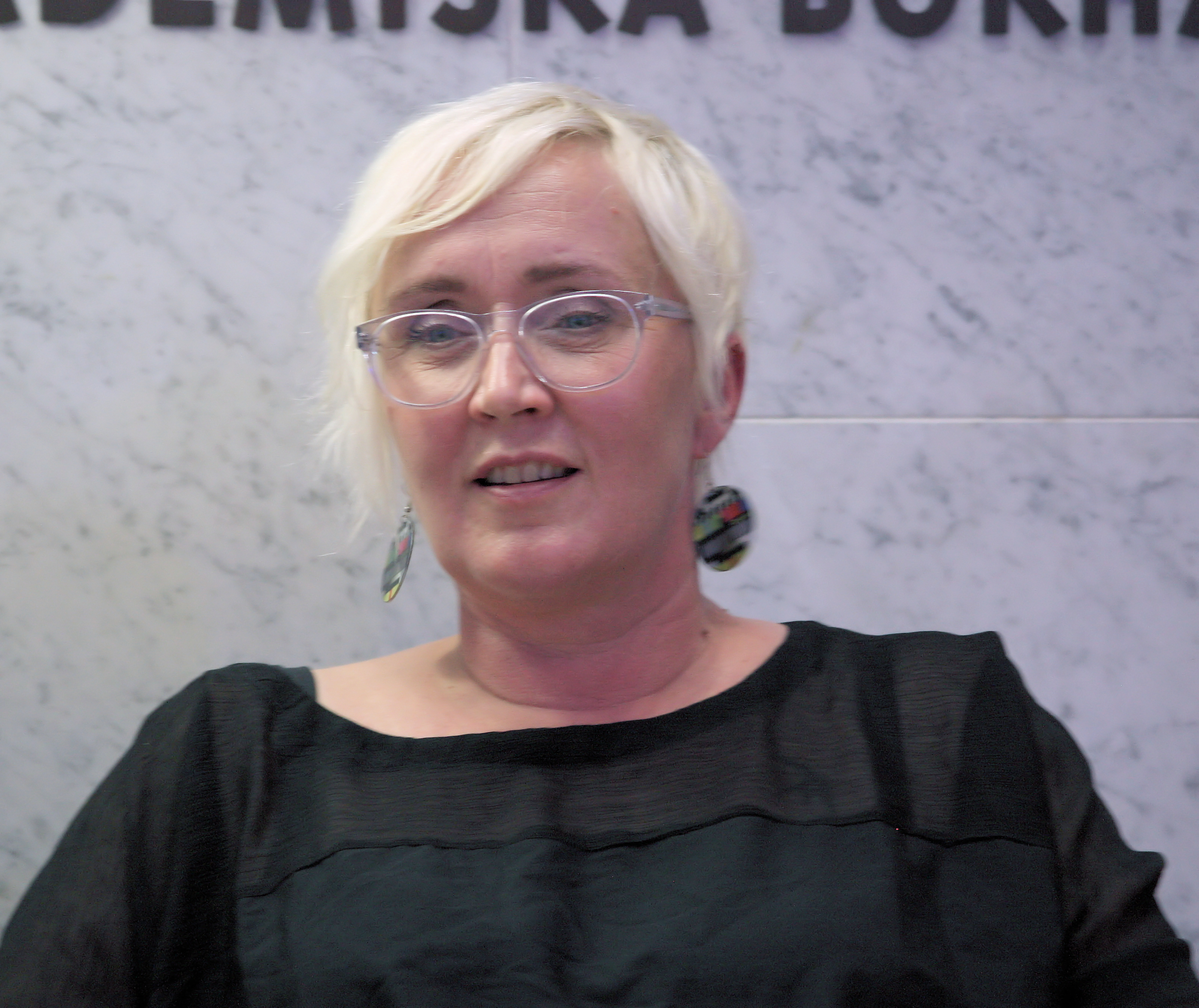 Finnish radio personality Olga K (Tuula Ketonen) on the Night of The Arts in Helsinki 2012